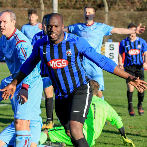 Christian Nade (Troon)